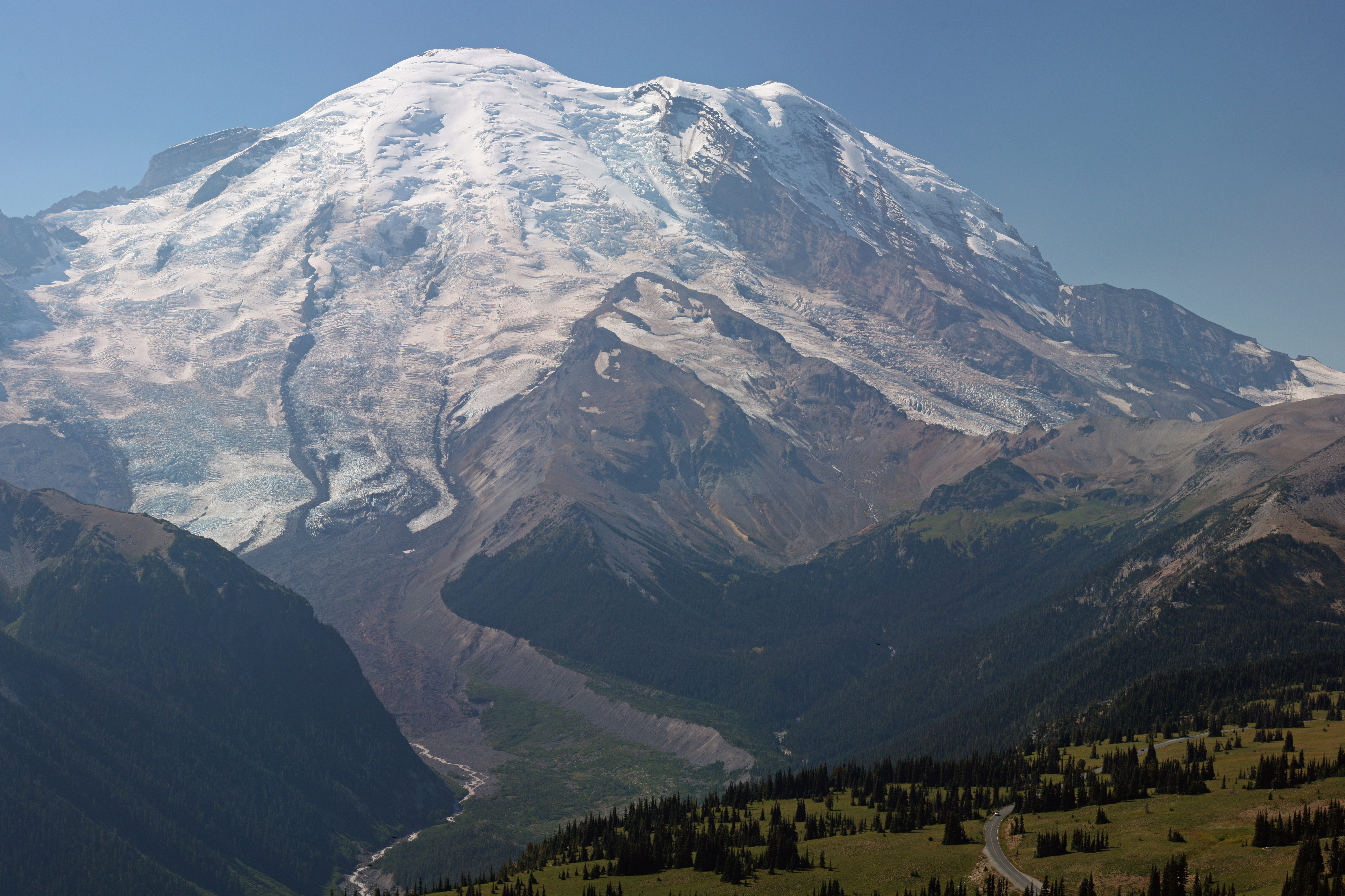 Mount Rainier (14,411 ft, 4392 m); Steamboat Prow (9720+ ft, 2963+ m, right of center); Emmons Glacier (left); Winthop Glacier (right of Steamboat Prow); Curtis Ridge (behind Winthop Glacier); stitched panorama; please see "Other versions" for source images. This image was created with Hugin. Viewpoint location: Dege Peak Spur Trail, Mount Rainier National Park Viewpoint elevation: 2117 meter (6945 ft) View direction: 244° Location source: Garmin GPSmap 60CSx Location Datum: WGS84